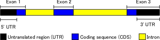 Exon, Intron and UTR